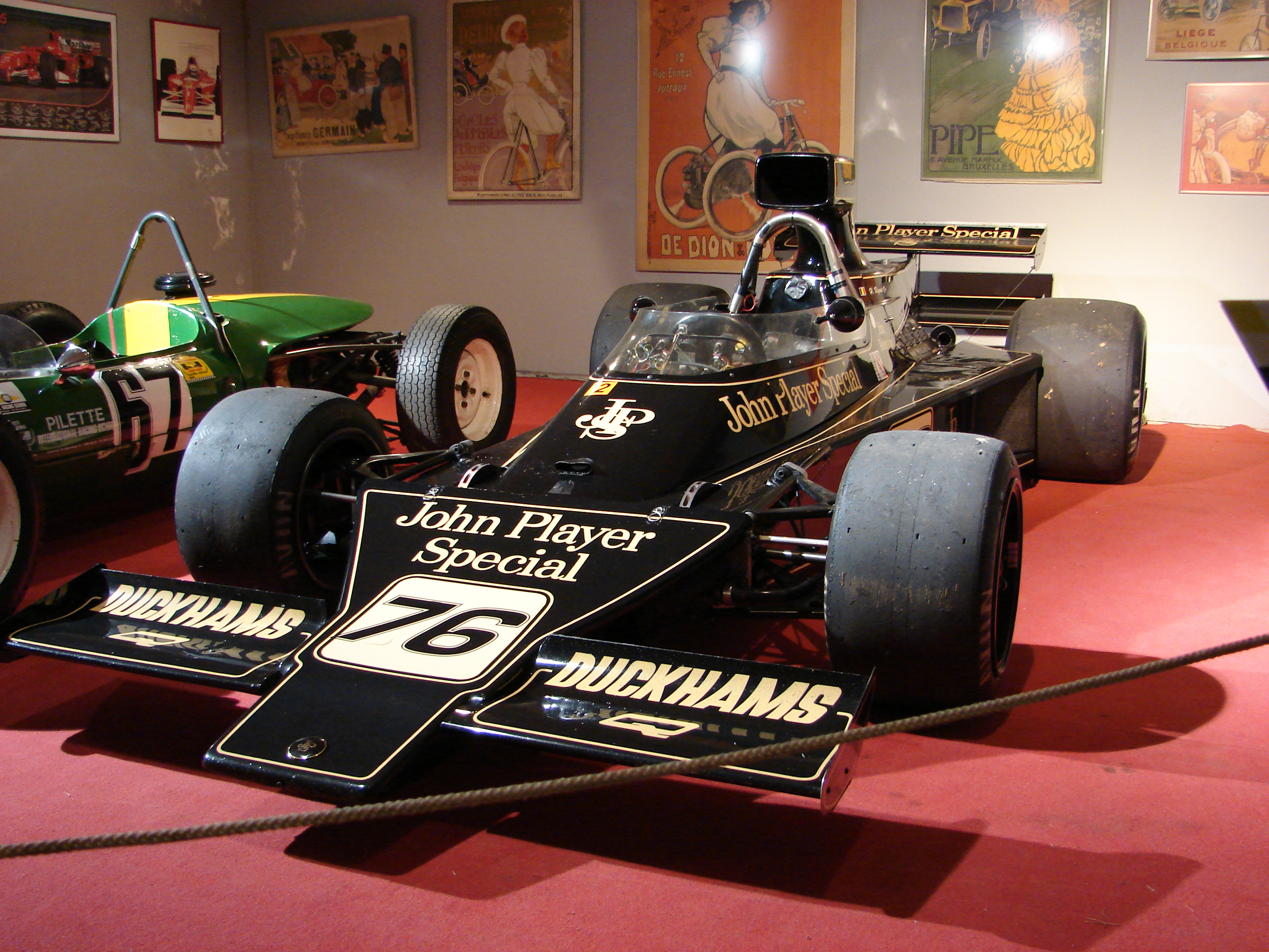 Lotus 76, Formula One car driven by Ronnie Peterson and Jacky Ickx during the 1974 season.